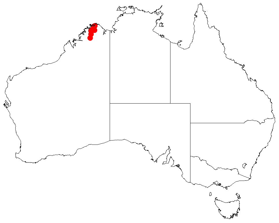 Acacia dacrydioides occurrence data from Australasian Virtual Herbarium downloaded from on 8 December 2018